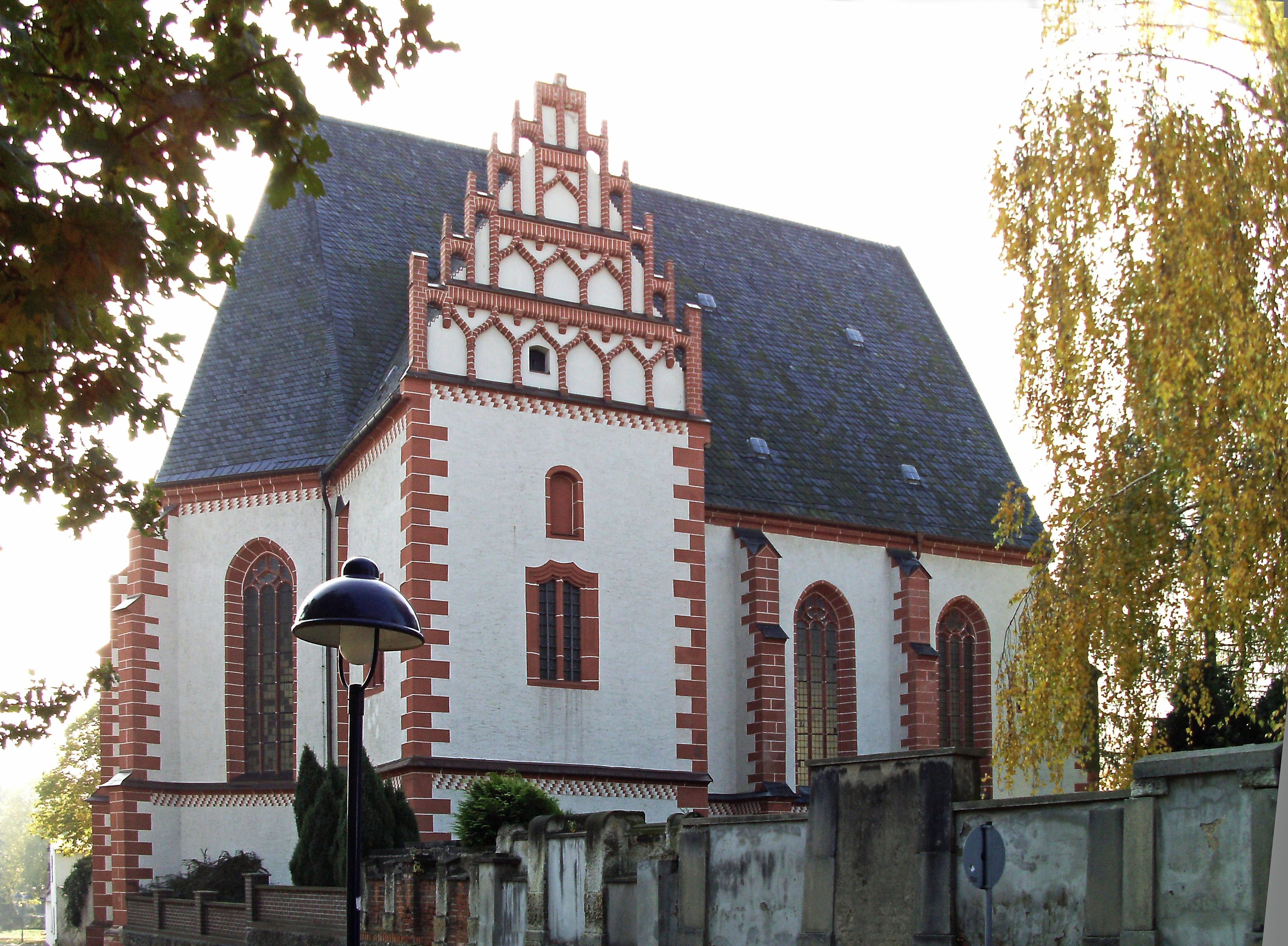 St. Mary's Church in Rötha (Leipzig, Saxony)